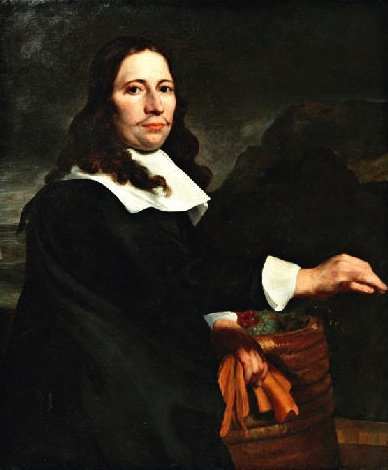 Portrait of Simon Van Der Stel. See this article for details about its identification.